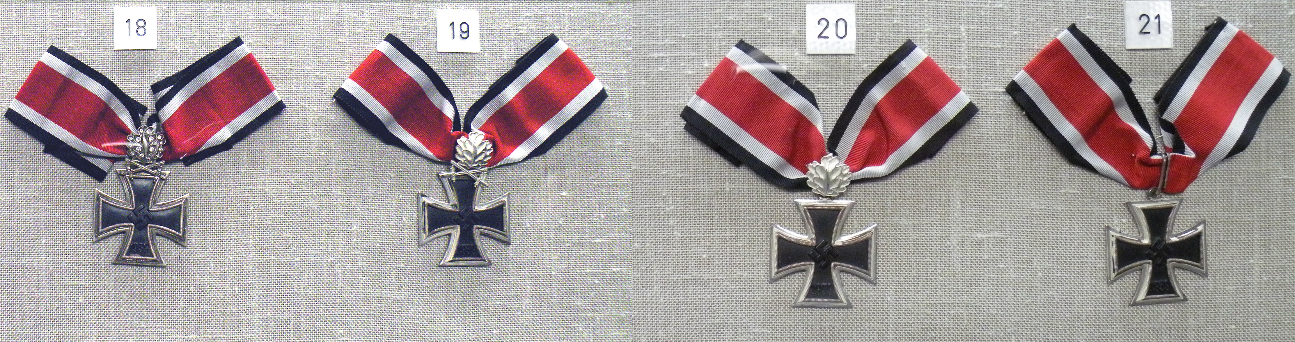 21 Ribbon with the Knight's Cross of the Iron Cross: 20 ... with Oak Leaves; 19 ... Oak Leaves and Swords; 18 ... Oak Leaves, Swords and Diamonds.